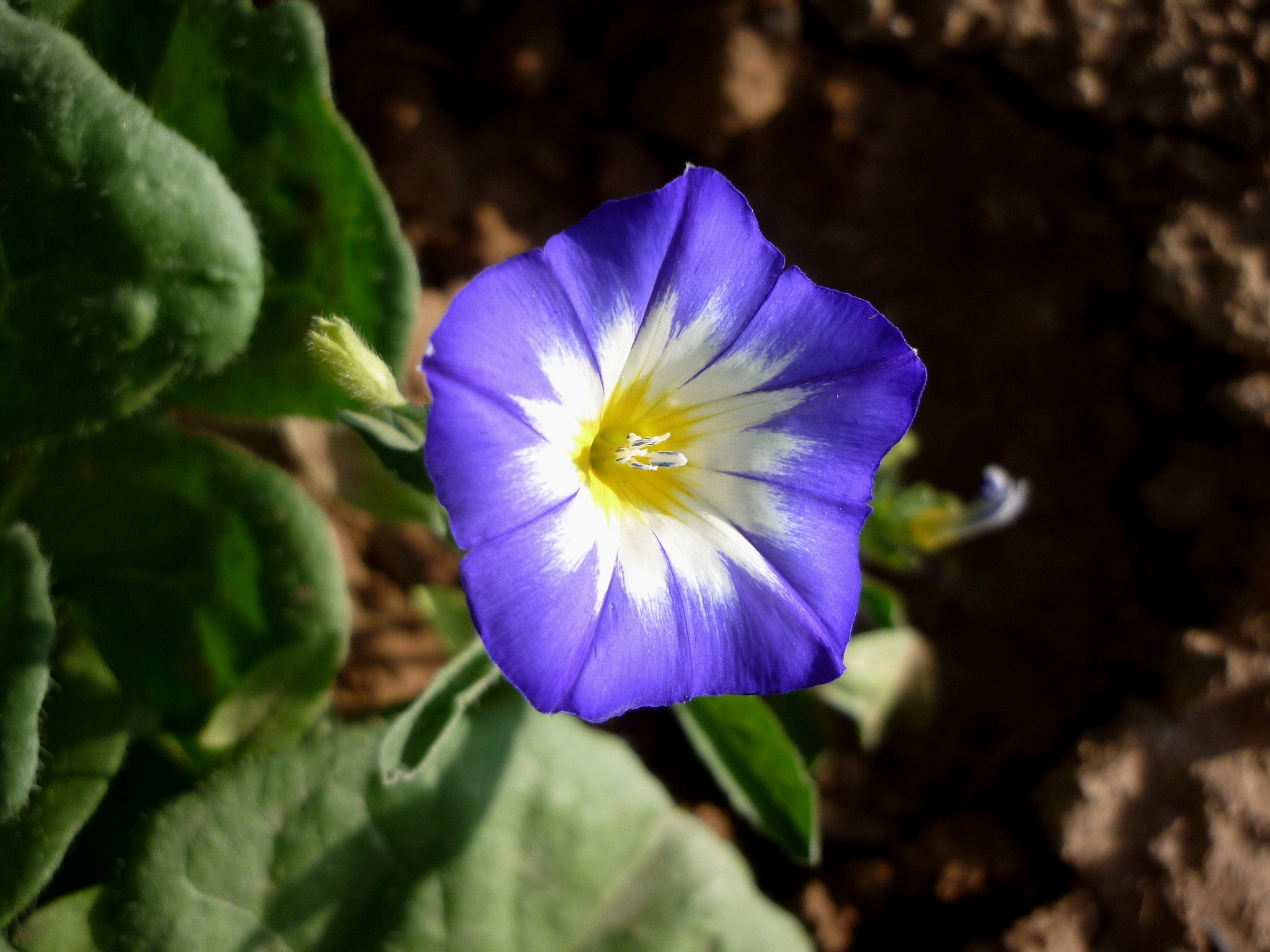 Convolvulus tricolor. In Torà (Segarra- Catalunya). On 430 m. altitude